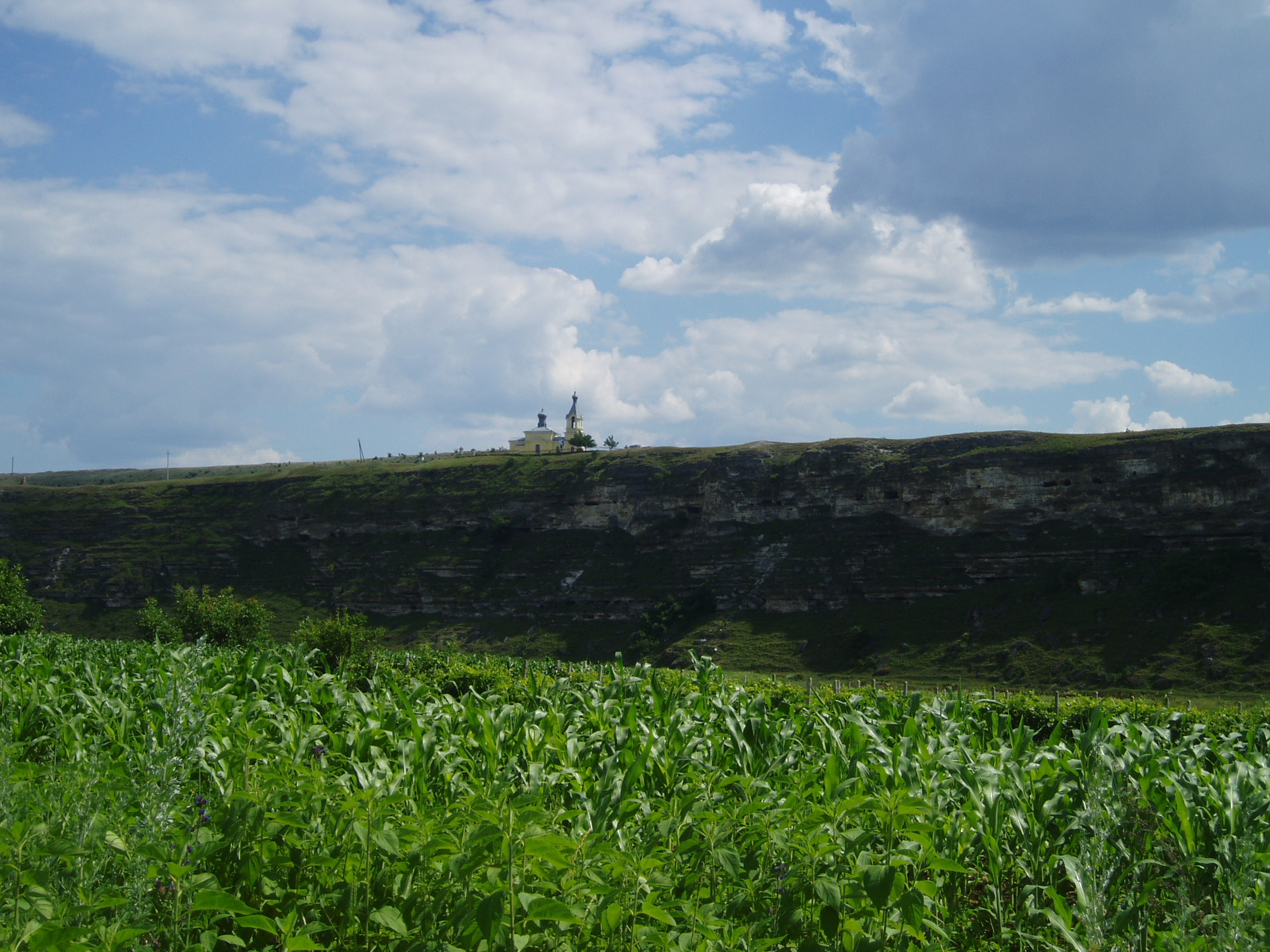 Taken from the roadside. Corn field in front. In Orheiul Vechi, Moldova.